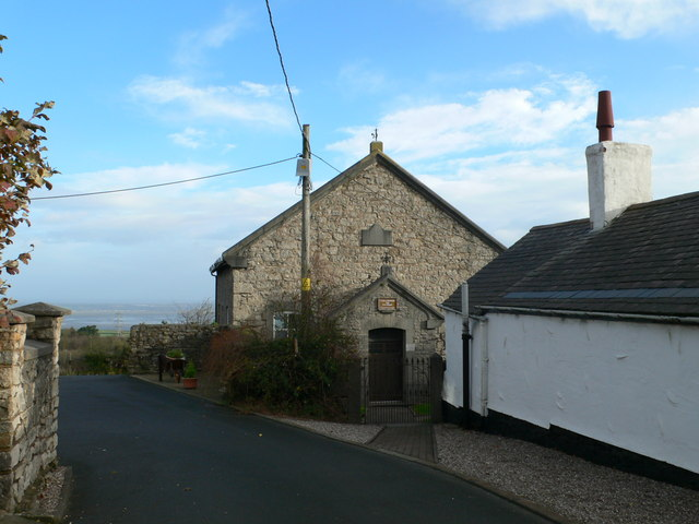 Salem, Pentre Halkyn Built in 1841 as a Wesleyan chapel.